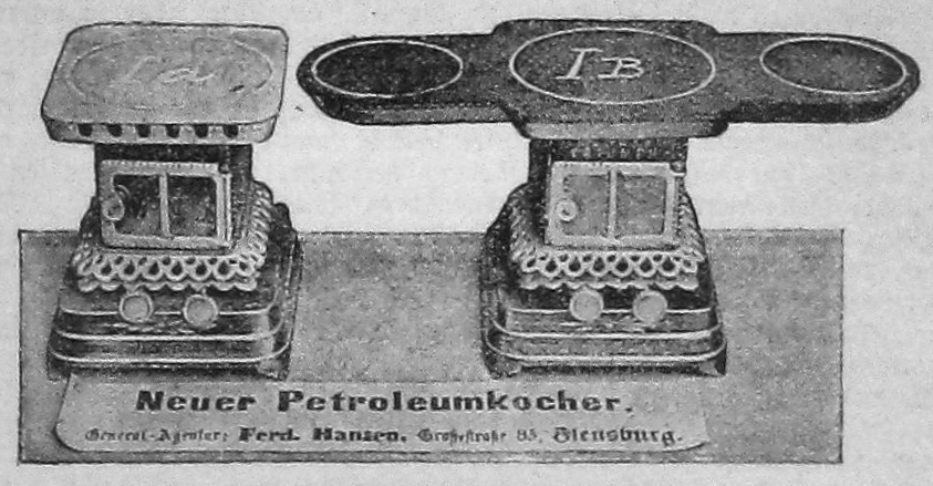 no caption